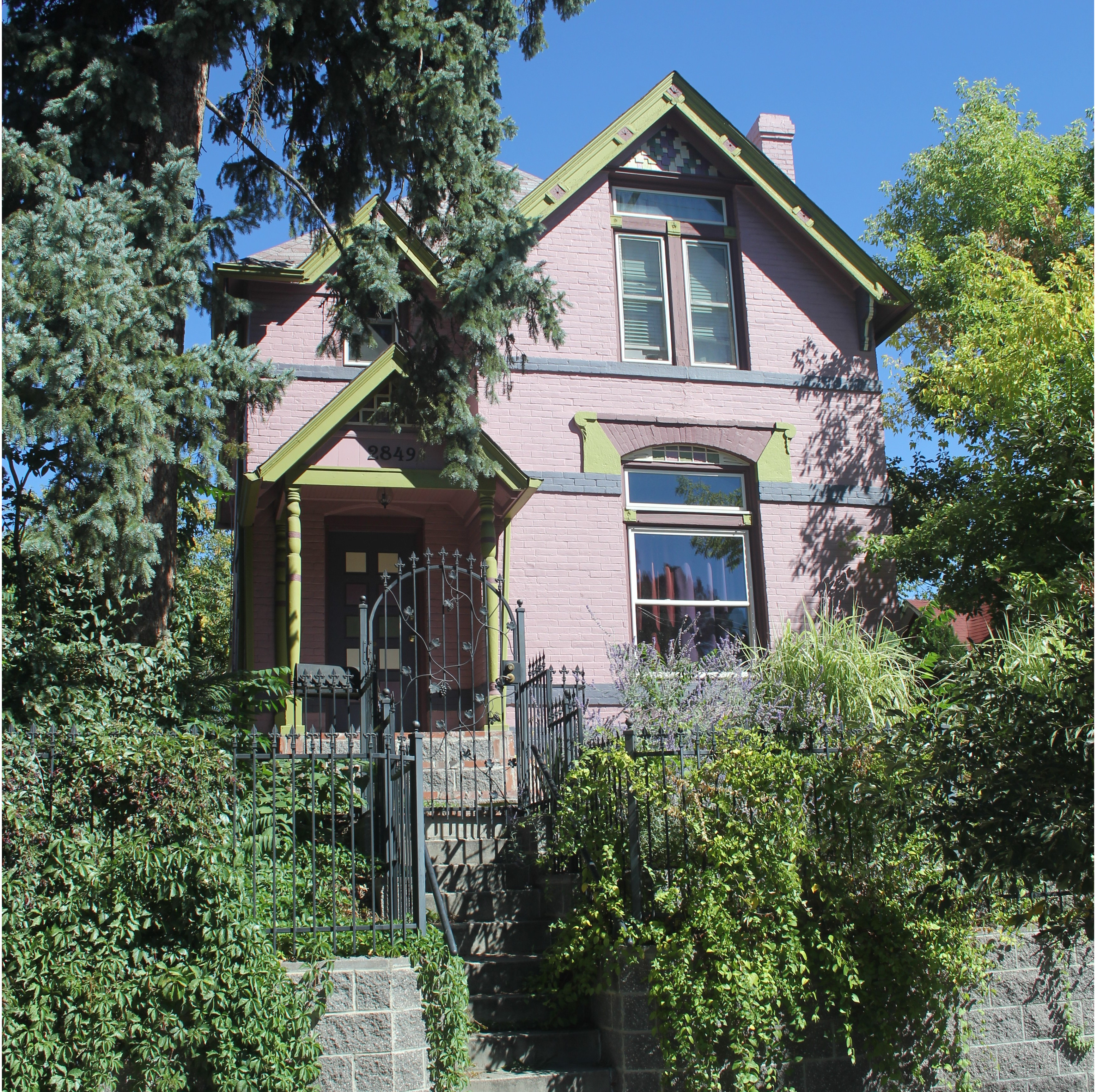 The Hoyt House was the Queen Anne family home of Merrill and Burnham Hoyt. It is located at 2849 West 23rd Avenue Denver, Co in the Jefferson Park Neighborhood of Denver.